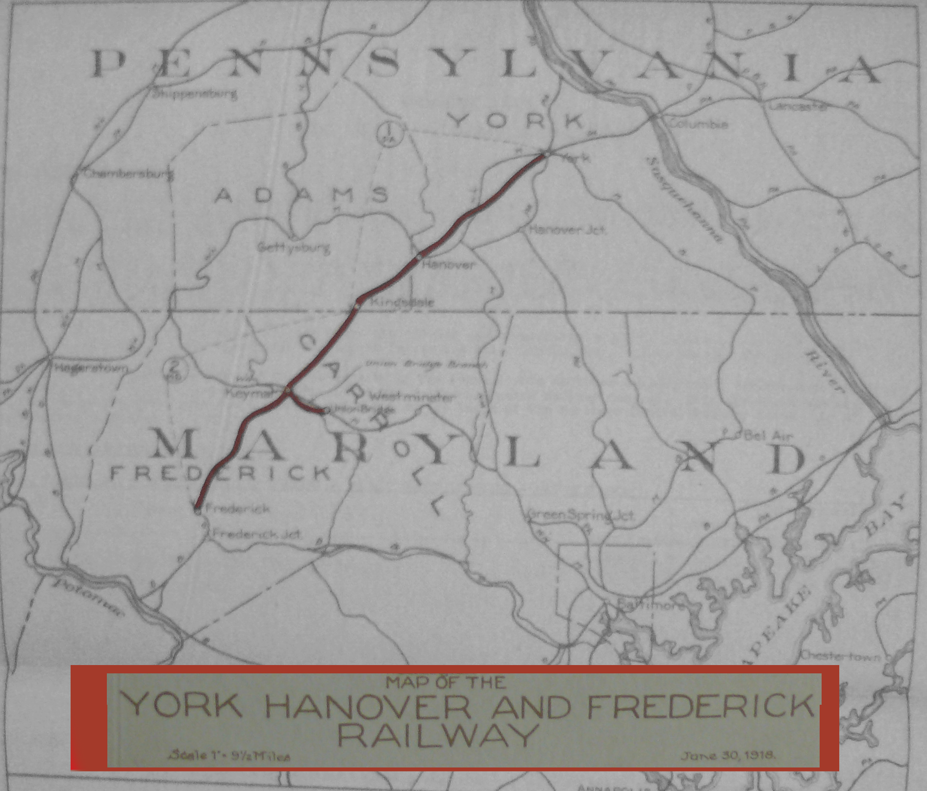 This map was produced by the Interstate Commerce Commission for the 1918 rate determination hearings.